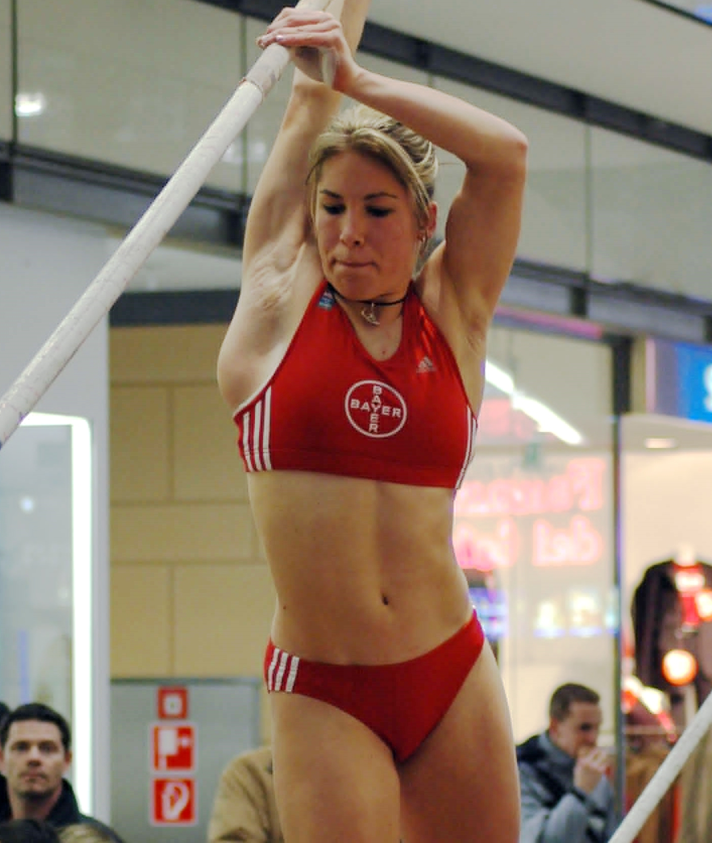 Floé Kühnert, German pole vaulter, at a pole vault meet in Potsdam, Sterncenter, 2004